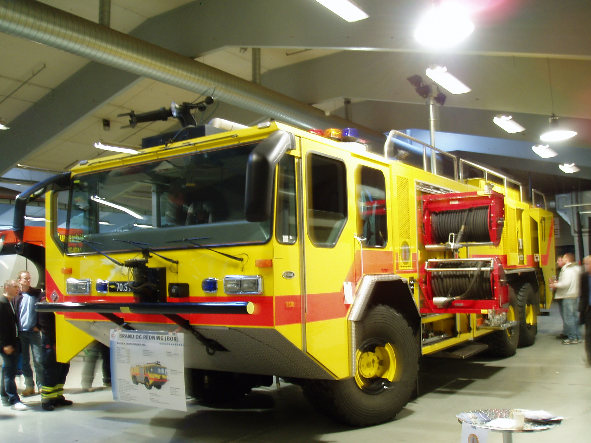 Eagle 6 crashtender from Royal Danish Air Force, Airbase Karup, photographed at car show in Bella Center.